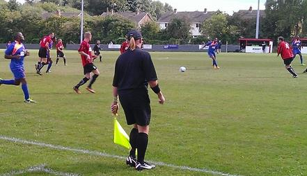 Pelsall Villa F.C. vs Barnt Green Spartak A.F.C. in 2013. I took the picture myself. Summary Pelsall Villa F.C. vs Barnt Green Spartak A.F.C. in 2013. I took the picture myself.